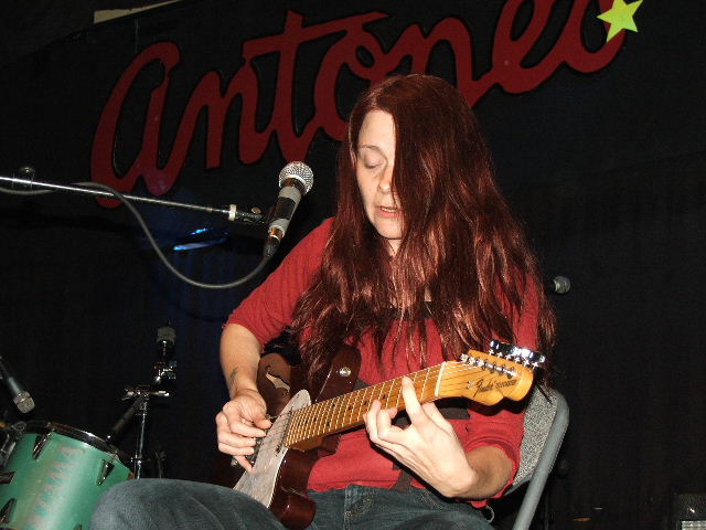 Carolyn Wonderland performing at Antone's in Austin, TX (2006). Photo by Ron Baker.